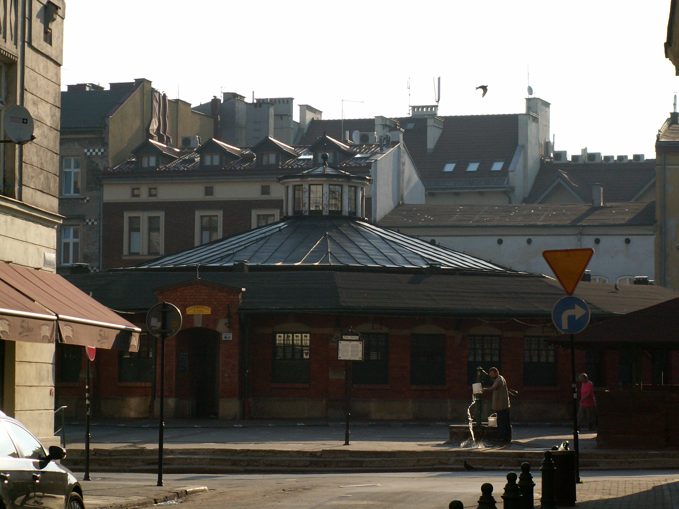 Market Hall, 4b Nowy (New) Square,Kazimierz, Krakow, Poland